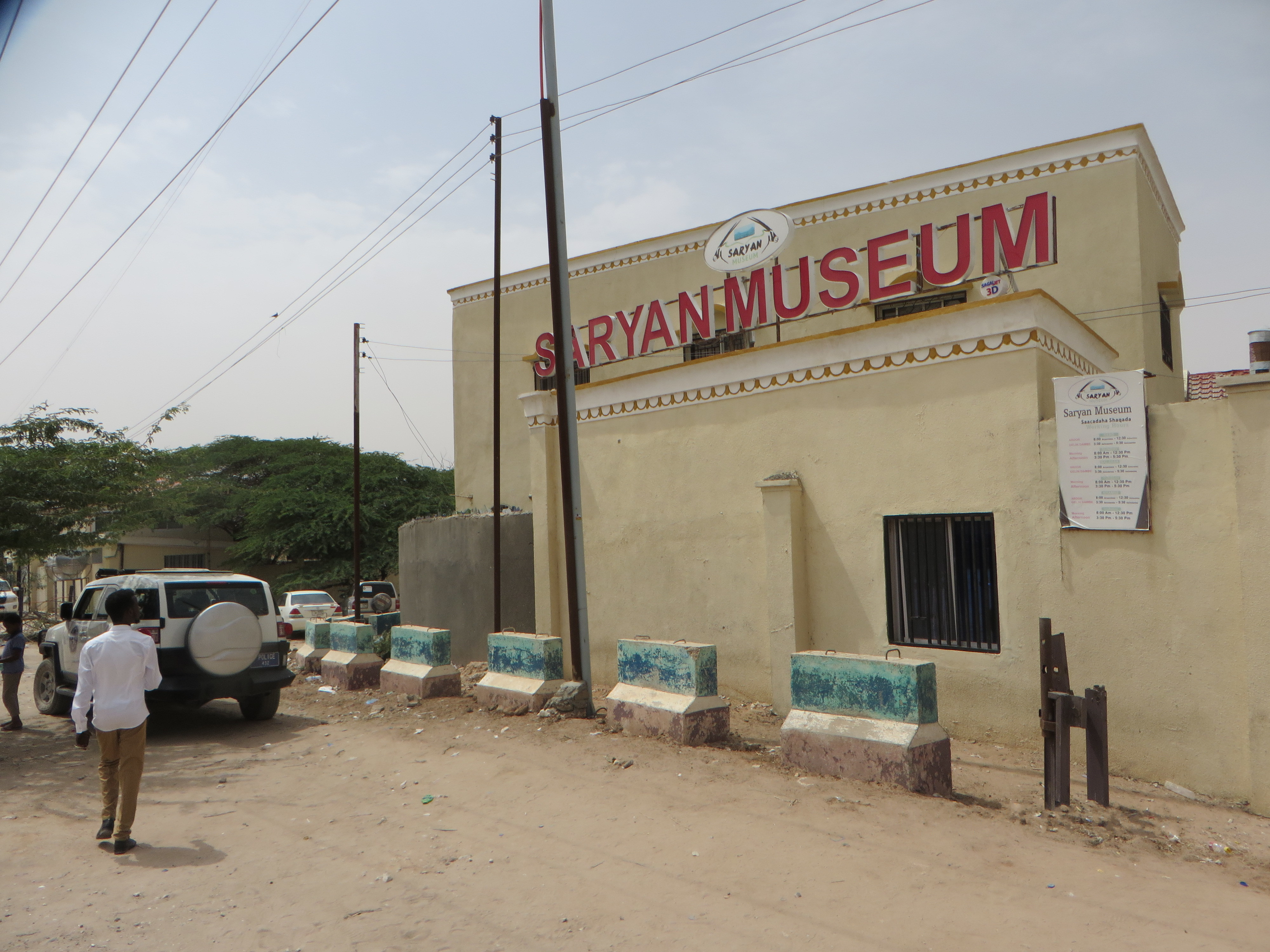 Exterior of the Saryan Museum. Saryan Museum Koodbuur, Marodijeex, Hargeisa.